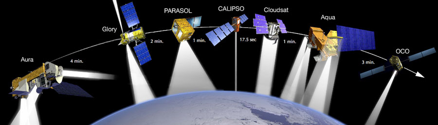 The satellites comprising the A-train (satellite constellation) after the 2009 launches.